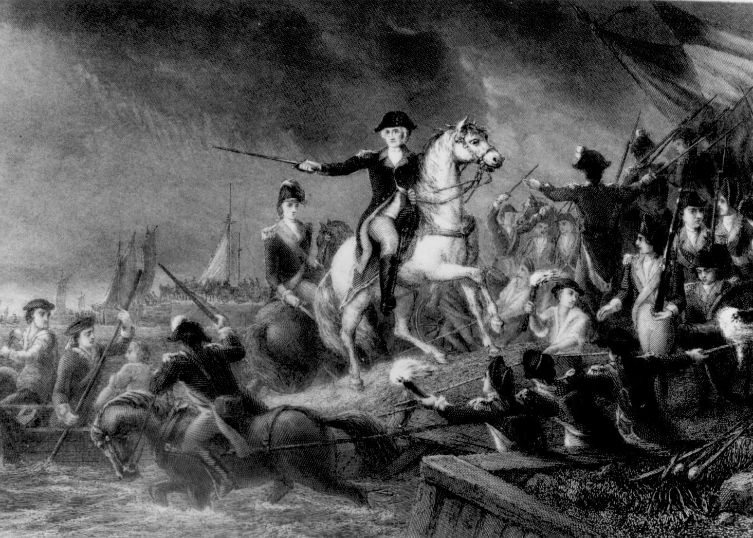 "Retreat at Long Island"General George Washington personally orchestrating the successful retreat of the Continental Army, militias, and their supplies across the East River from Brooklyn Heights to Manhattan, New York on the evening of August 27, 1776.